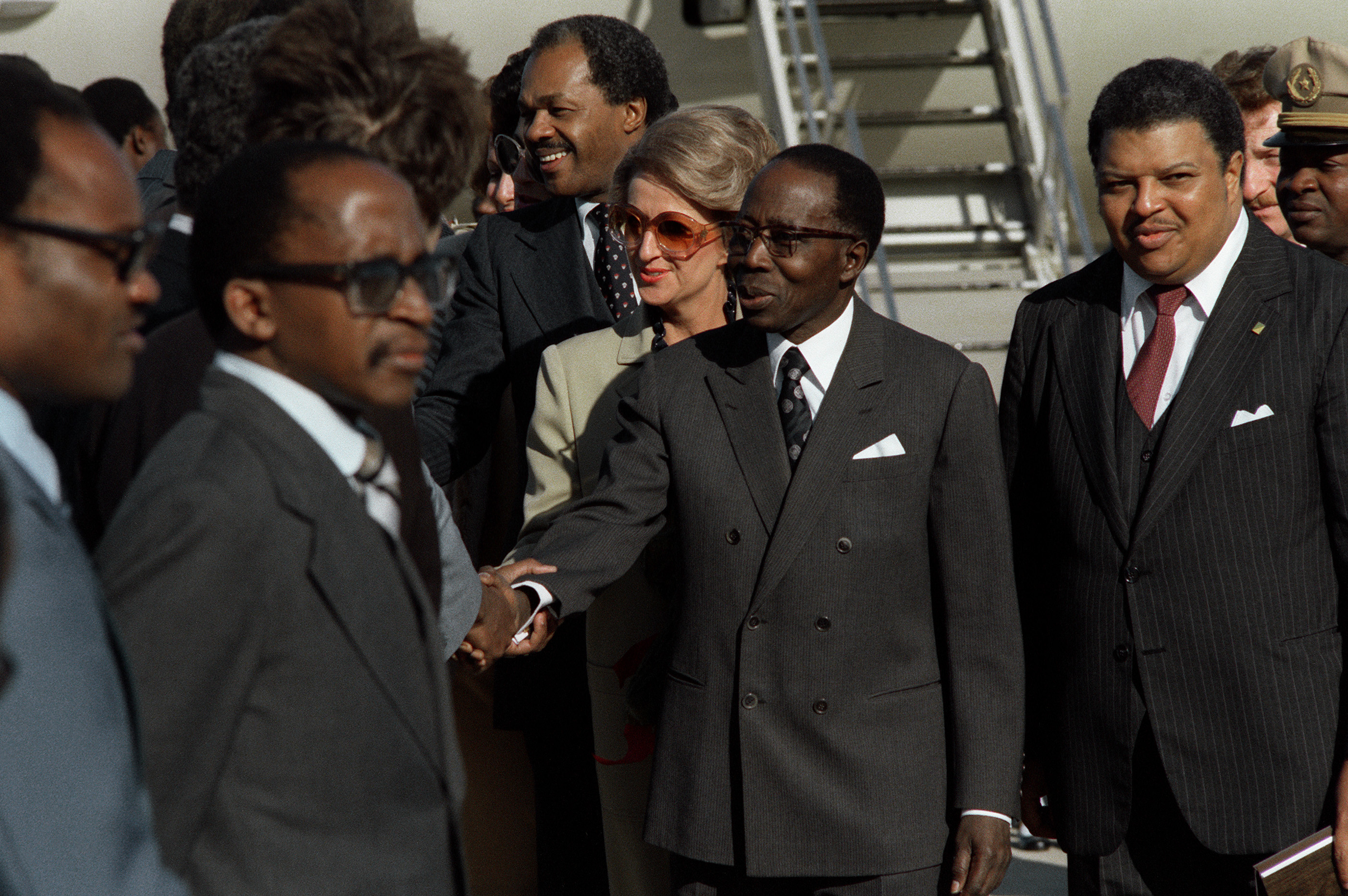 President Leopold Senigor of Senegal, middle, and members of his party are welcomed upon their arrival in the United States for a visit.